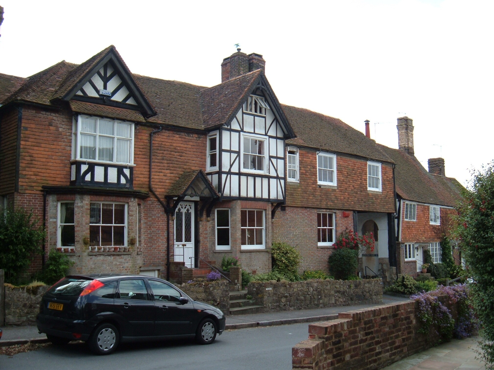 Row of cottages in the main street, Rotherfield, East Sussex, England. Taken by contributor, June 2006. The blue plaque no the North wall of these cottages is to Miles - the inspiration for C.S. Lewis' fictional character Mr. Tumnus. Lewis describes Tumnus as having reddish skin, curly hair, brown eyes, a short pointed beard, horns on his forehead, cloven hooves, goat legs with glossy black hair, a "strange but pleasant little face," a long tail, and being, "only a little taller than Lucy herself."